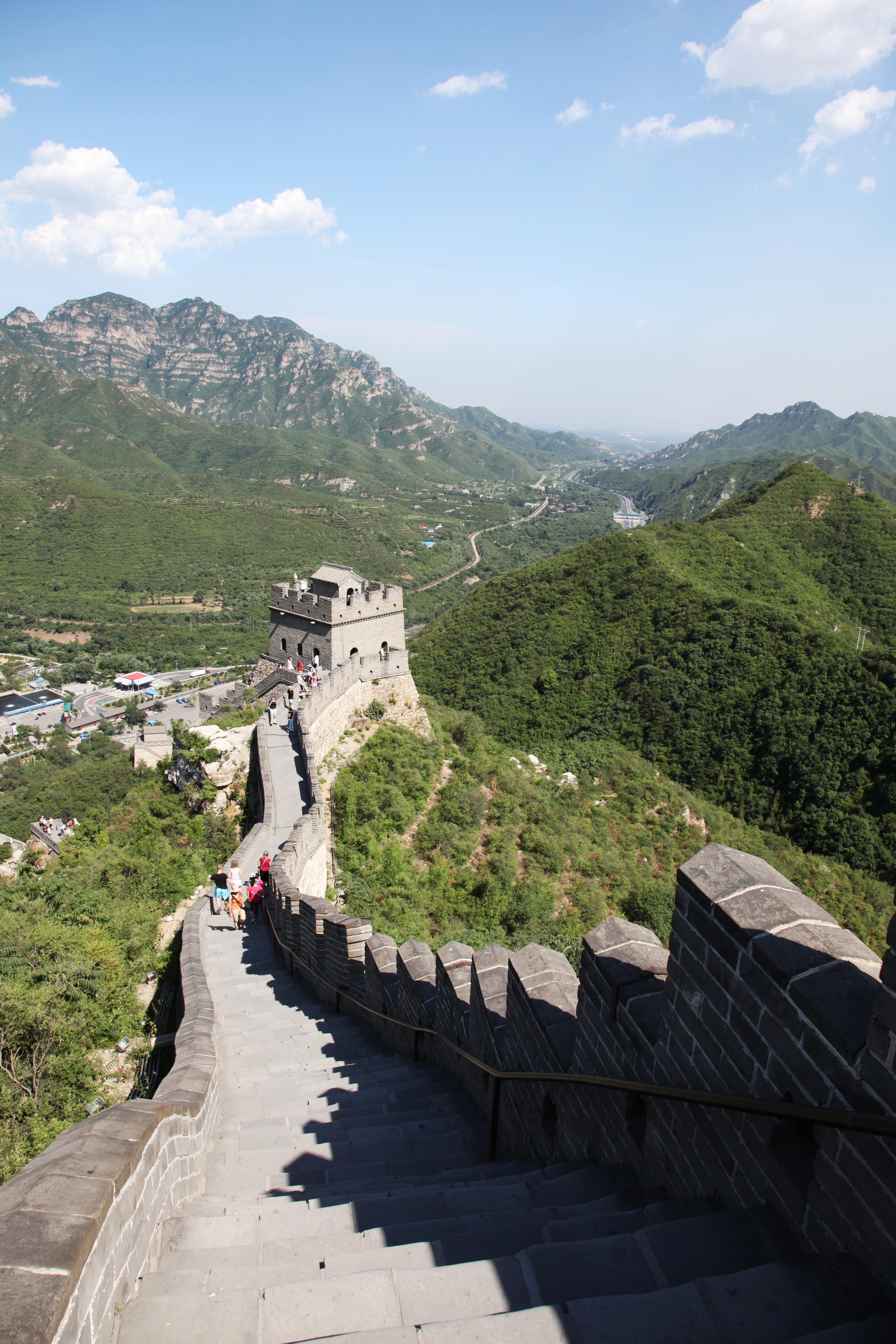 Great Wall of China at Juyongguan